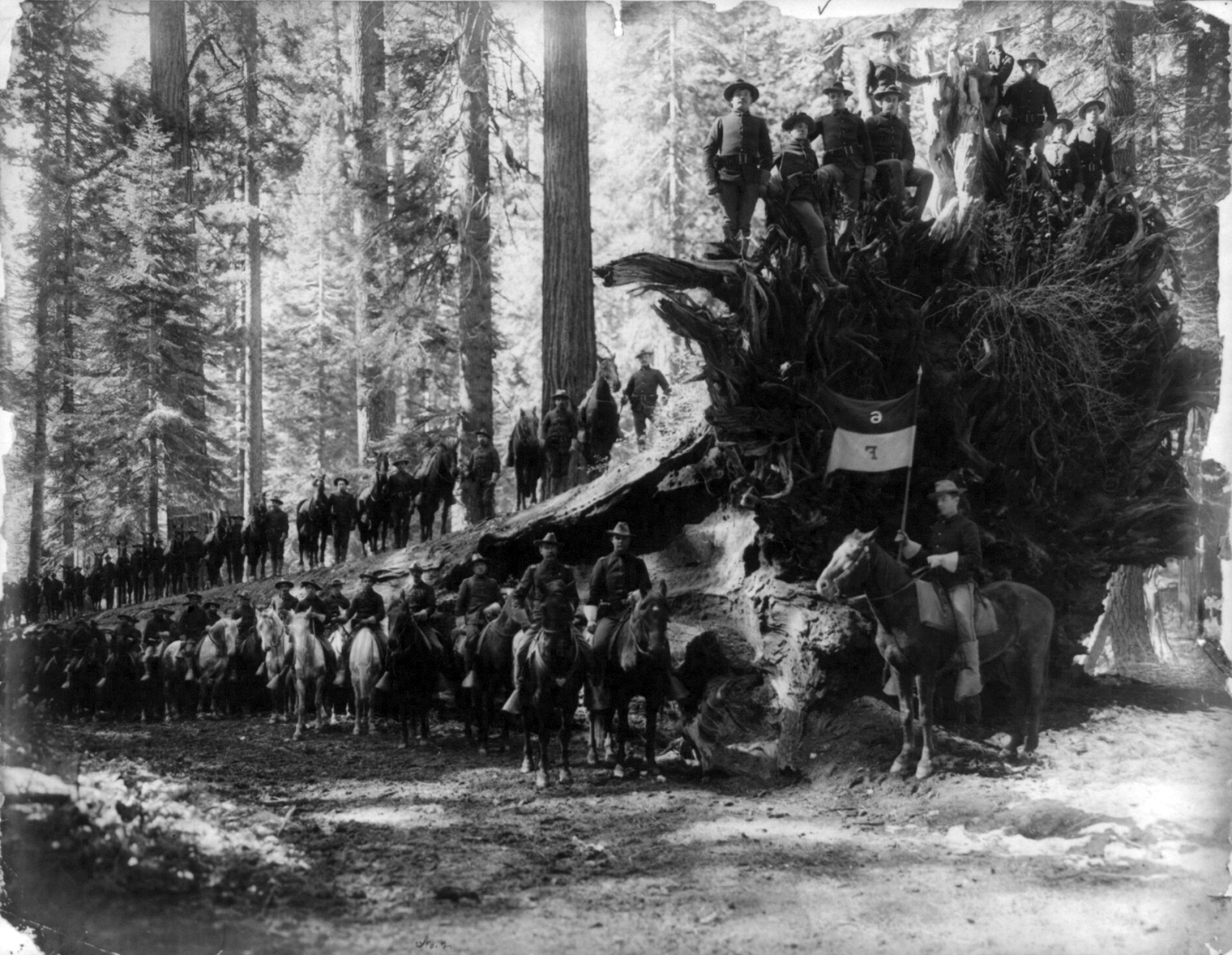 The fallen monarch, surrounded by Co. F, 6th Cavalry U.S.A., Mariposa big tree grove, Yosemite Valley National Park, Calif.